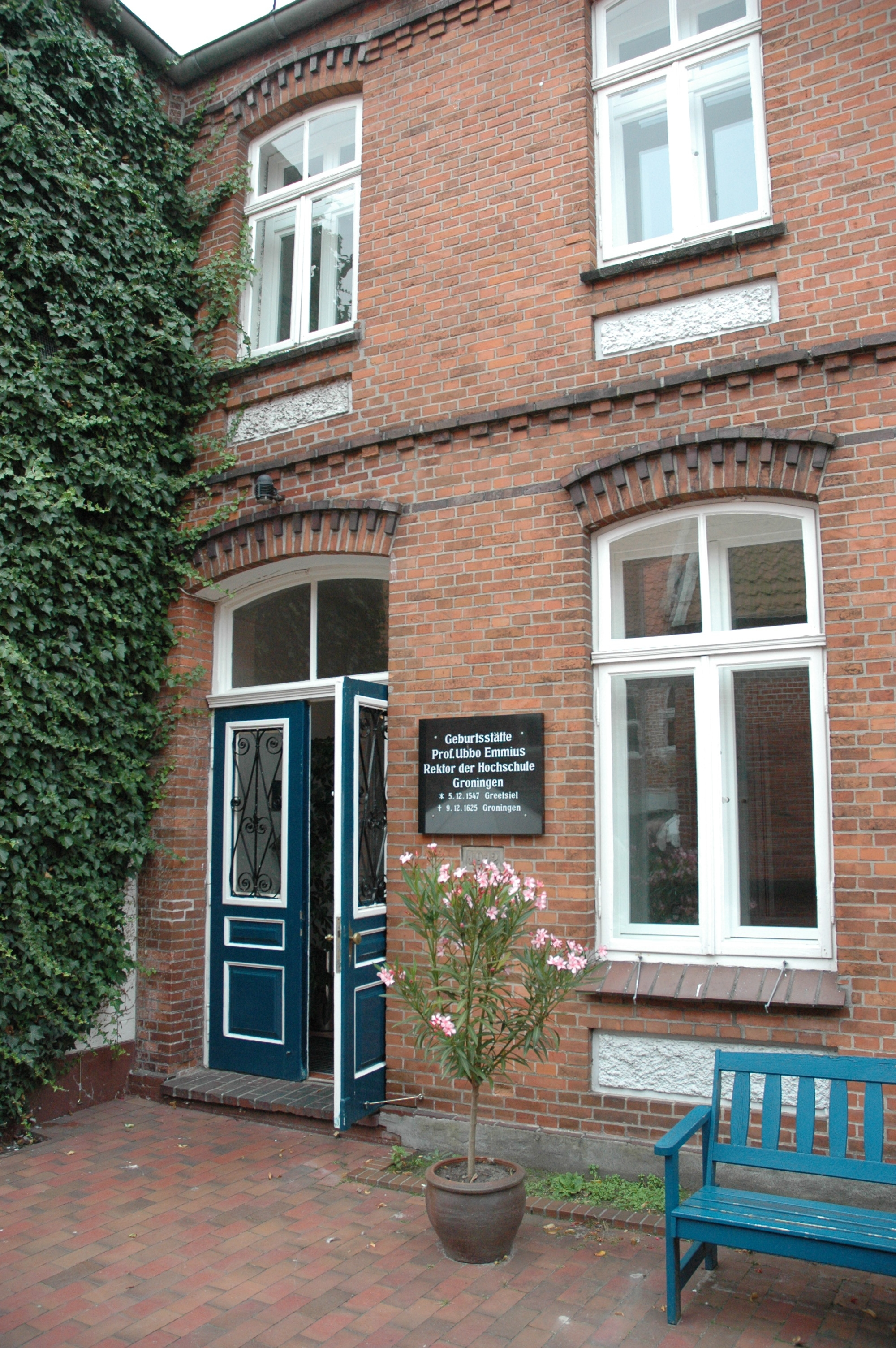 Ubbo Emmius, Place of birth, Greetsiel, East-Frisia, Germany